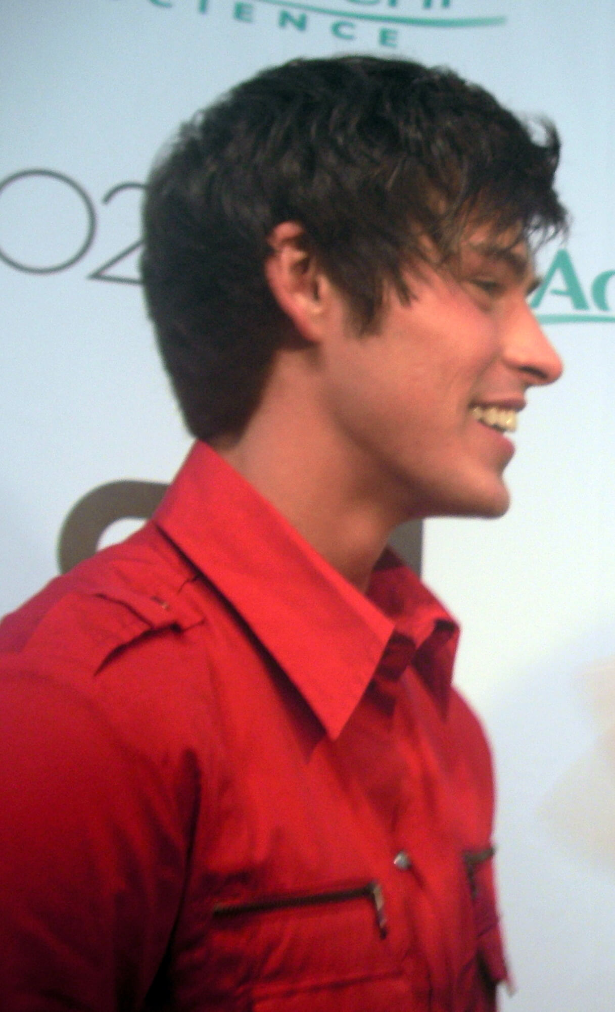 Adam Gregory at the premiere party for CW's 90210, Malibu, California